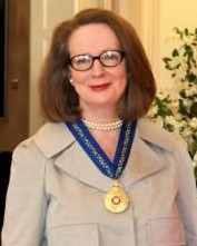 Cropped photograph of Susan Kiefel being appointed a Companion in the General Division of the Order of Australia by the Governor-General at the Queen's Birthday 2011 Honours and Bravery Awards